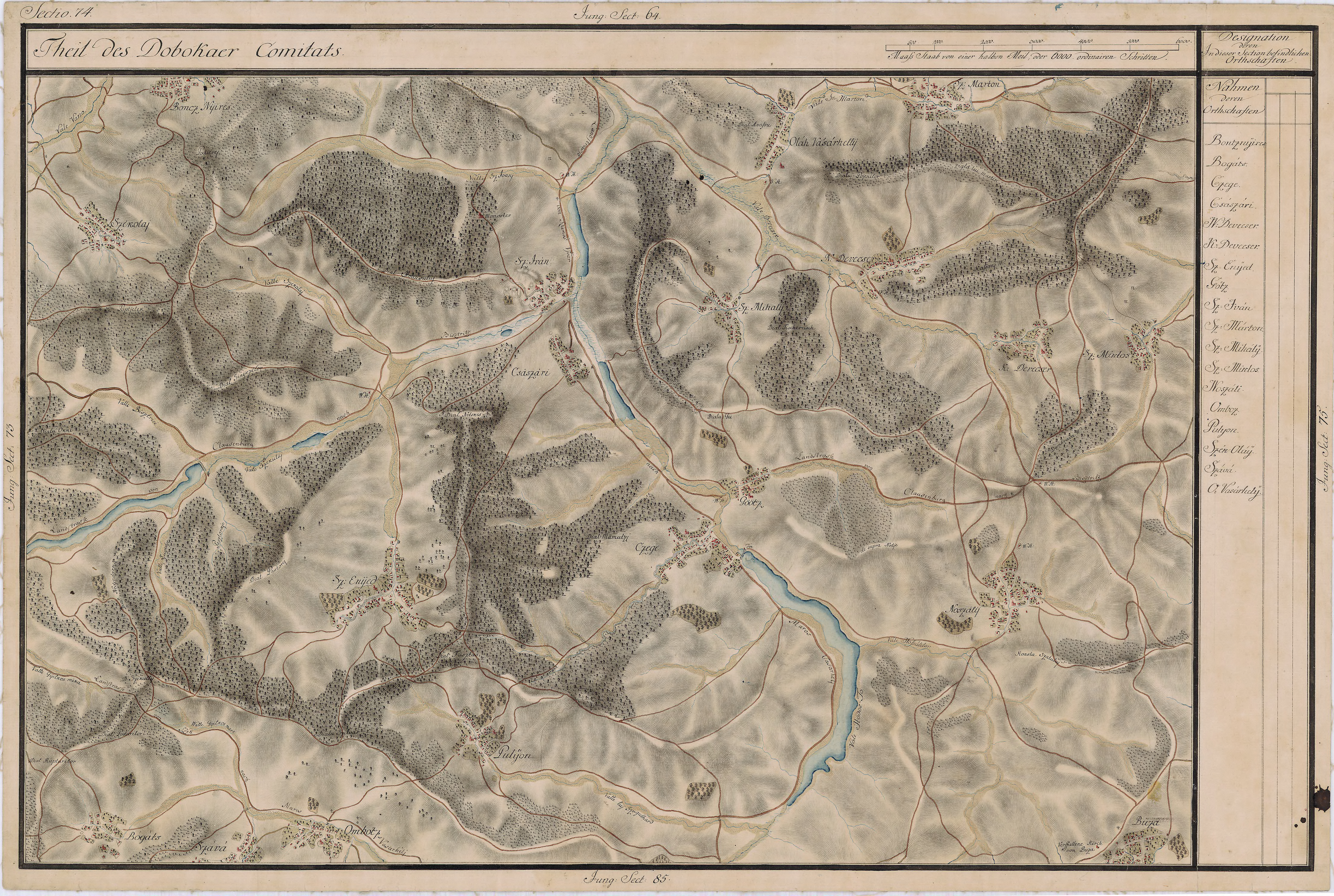 Grand Duchy of Transylvania, 1769-1773. Josephinische Landaufnahme pg.074